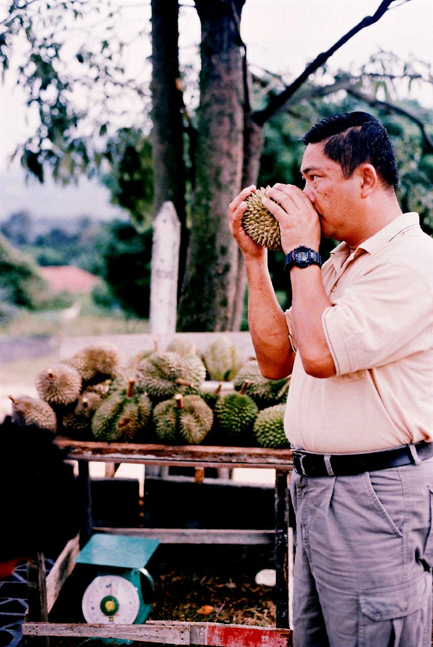 A man sniffing durian